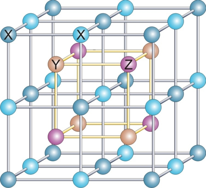 Structure of an Heusler alloy. In the case of the full Heusler alloys with formula X2YZ (e. g., Co2MnSi) two of them are occupied by X-atoms (L21 structure), for the semi-Heusler alloys XYZ one fcc sublattice remains unoccupied (C1b structure).